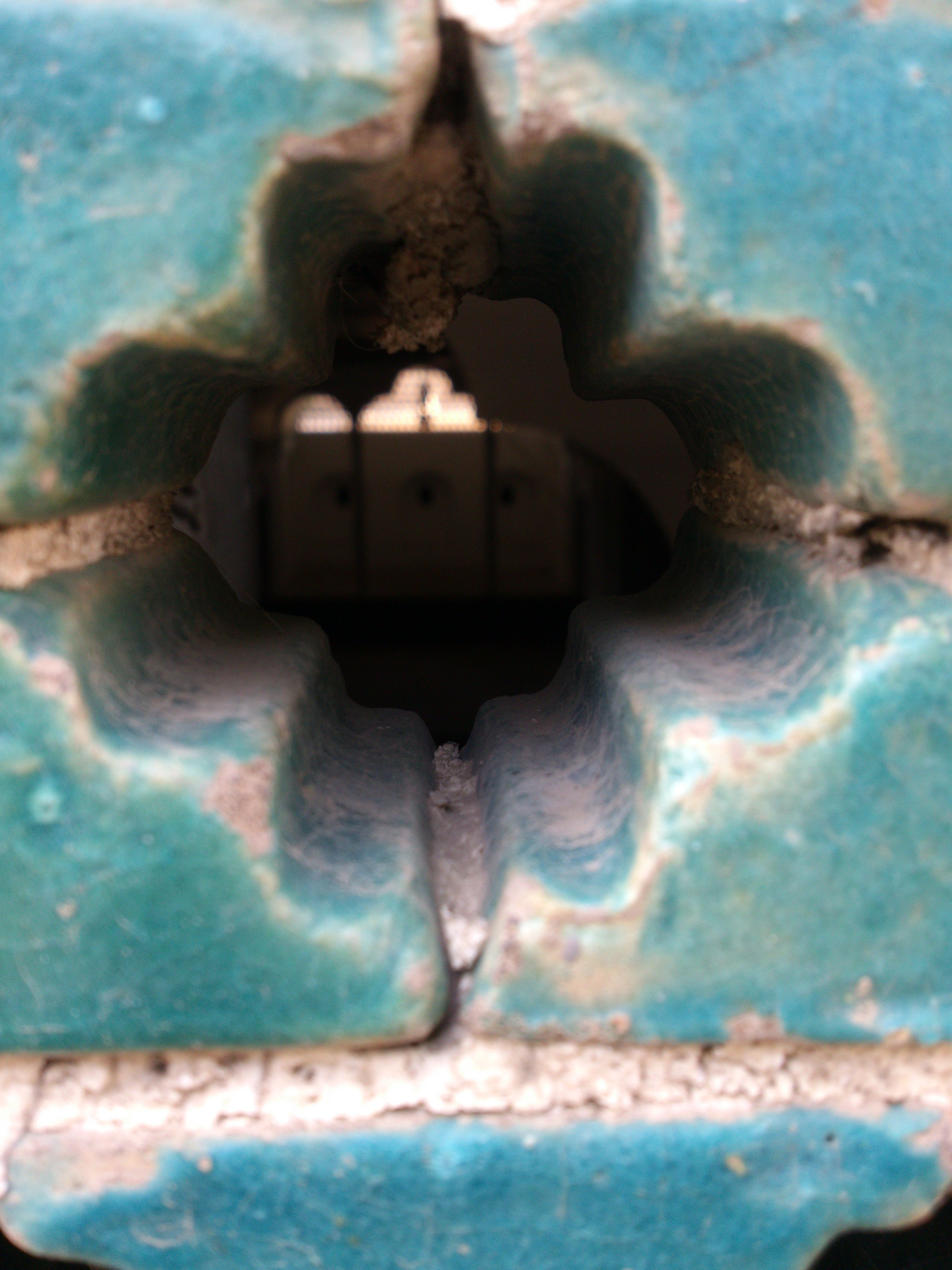 Aminis Historic House (hosseinieh)